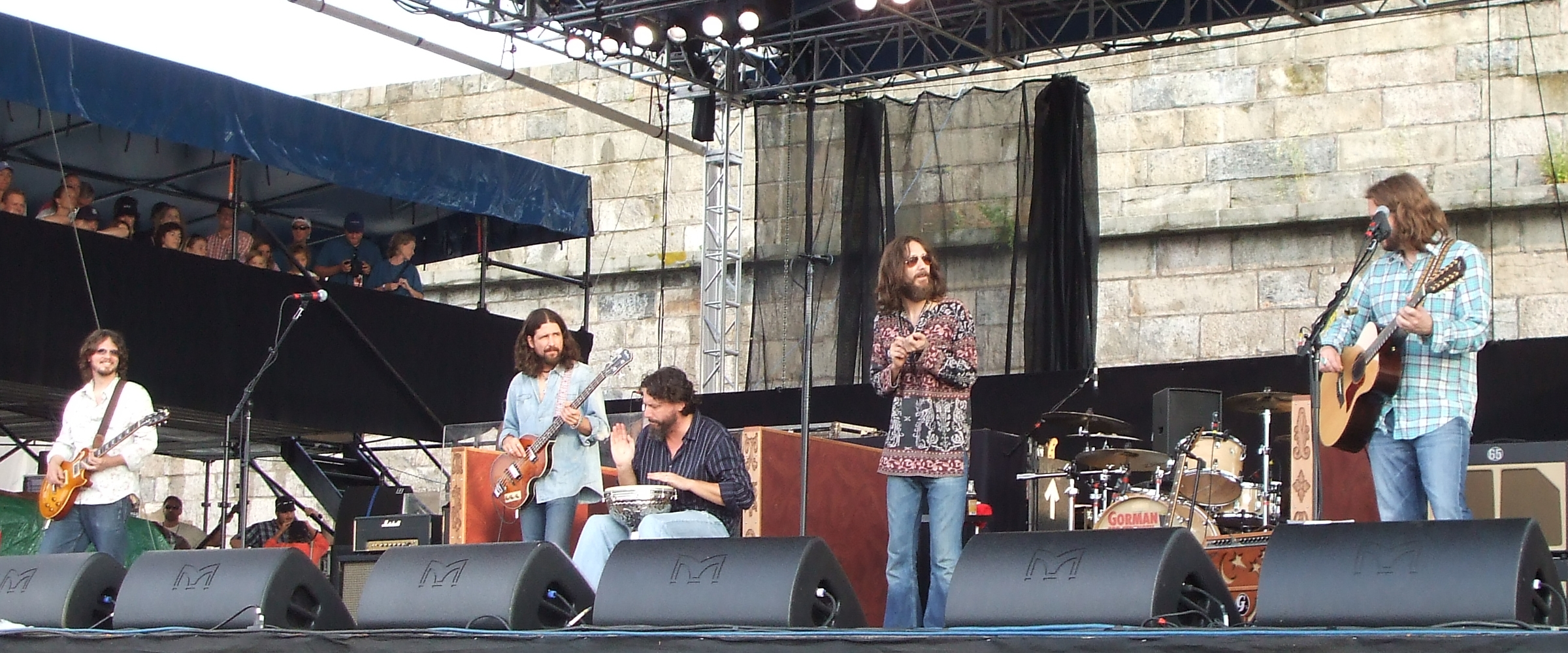 The Black Crowes--Luther Dickinson, Sven Pipien, Steve Gorman, Chris Robinson, and Rich Robinson--performing at the 2008 Newport Folk Festival. (Adam MacDougall was playing keyboard out-of-frame to the right.)